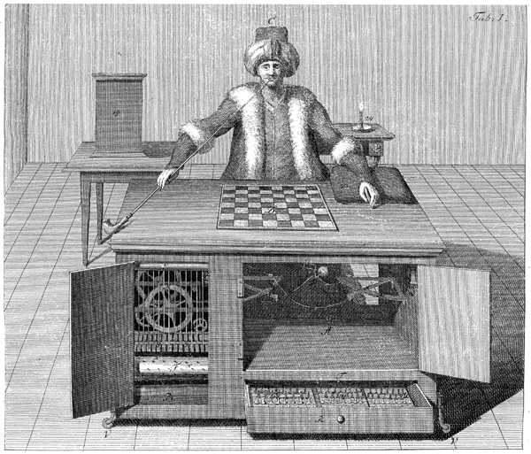 Wolfgang von Kempelen - The Turkish Chess Player